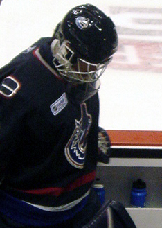 Dan Cloutier with the Vancouver Canucks on the 2005–06 season opener.